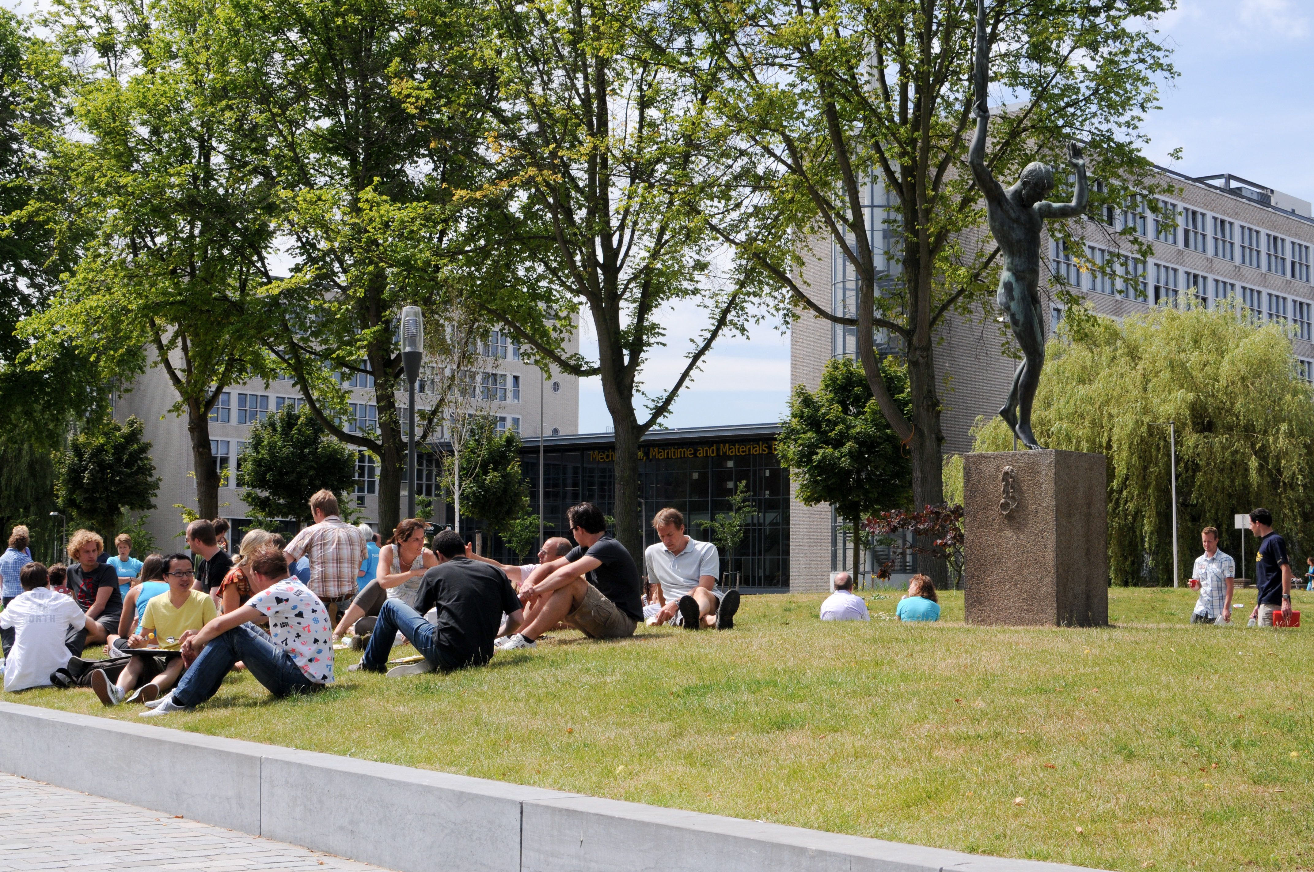 Delft University of Technology Mekelpark